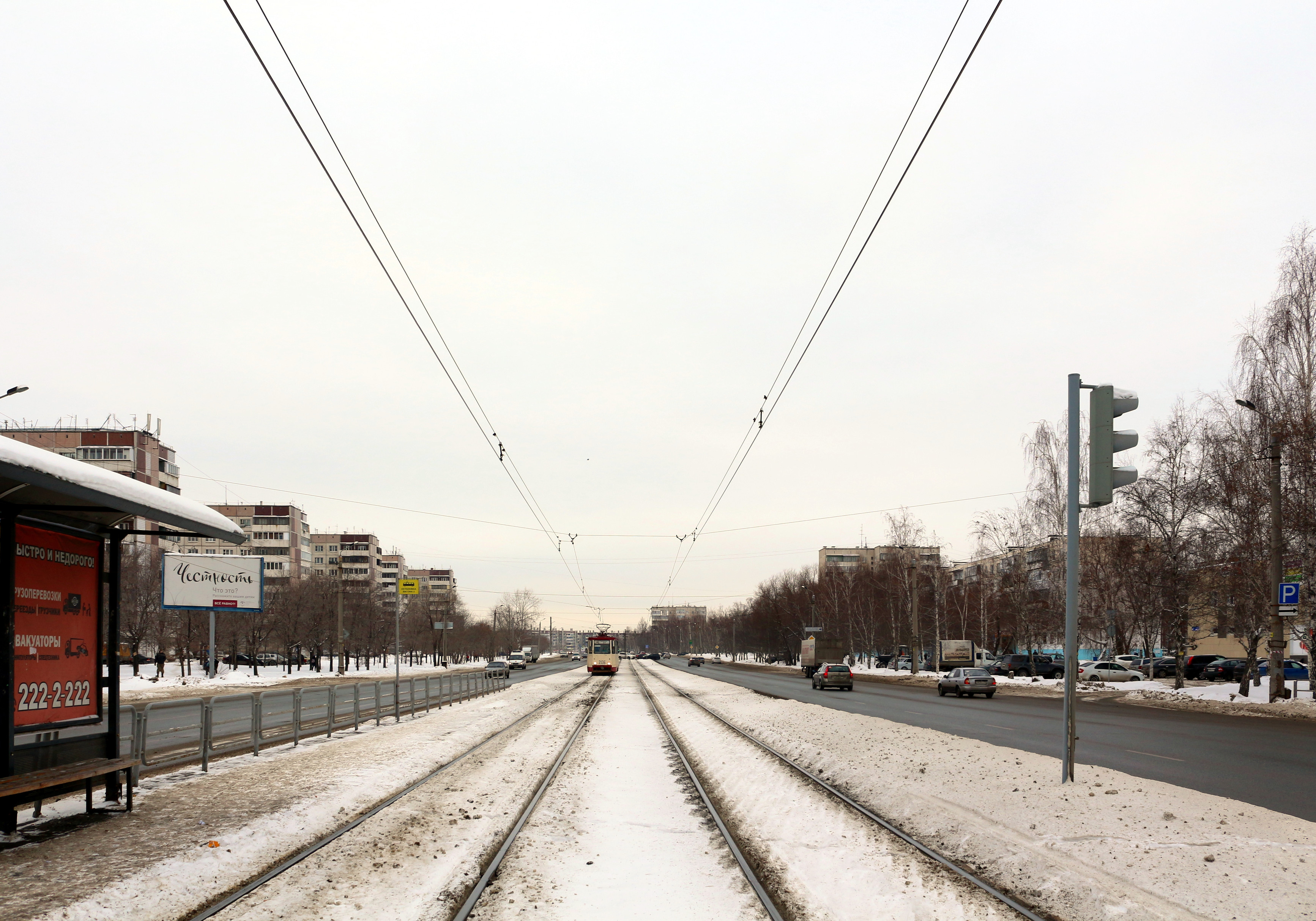 Tramway tracks on Prospect Pobedy (Chelyabinsk).